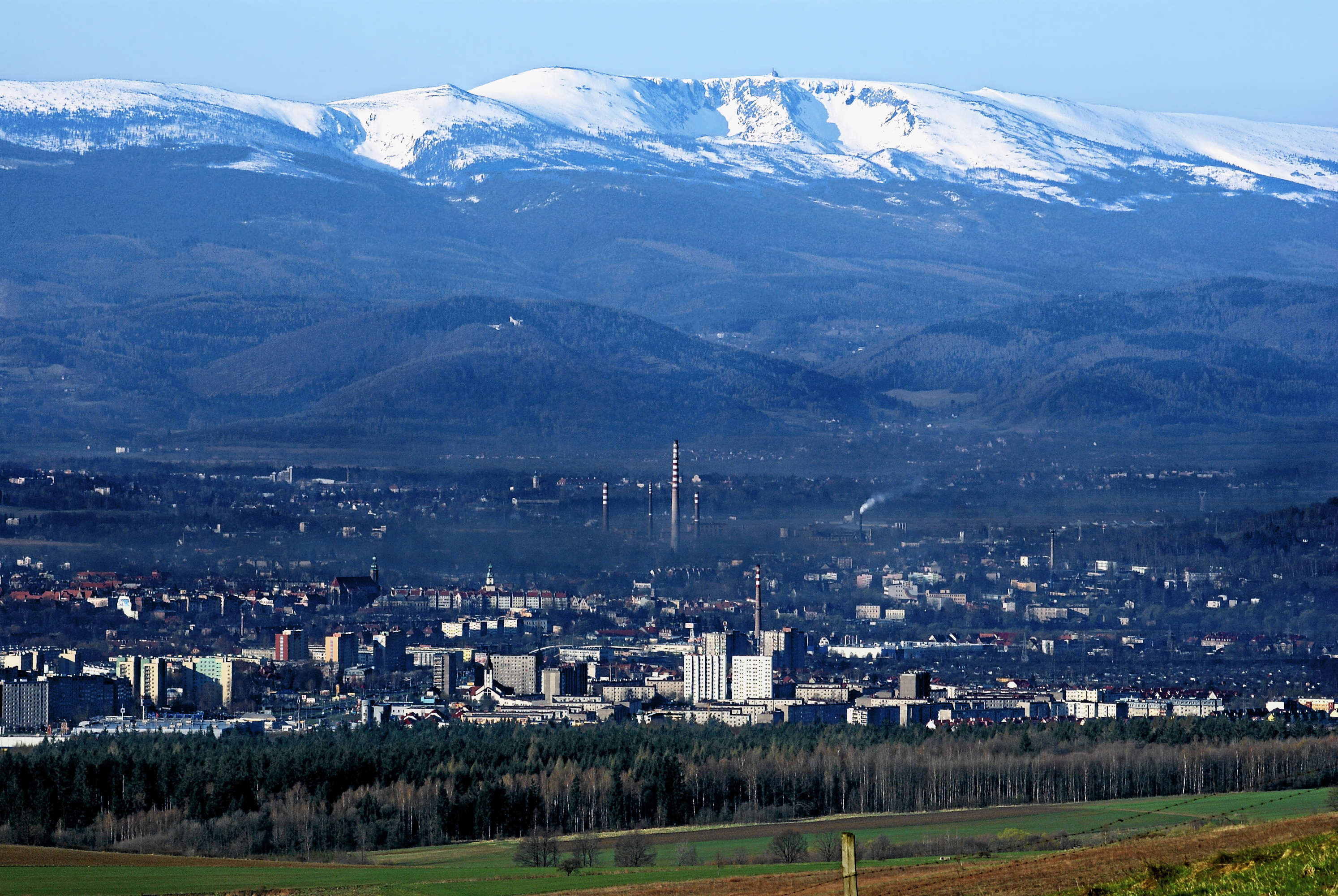 View of Jelenia Gora (Hirschberg) overlooking the Lysa Gora (Blücherhöhe), a mountain in Kaczawskie Mountains (Górach Kaczawskich); in the background the Wielki Szyszak (Hohes Rad) with the snow pits (Śnieżne Kotły).